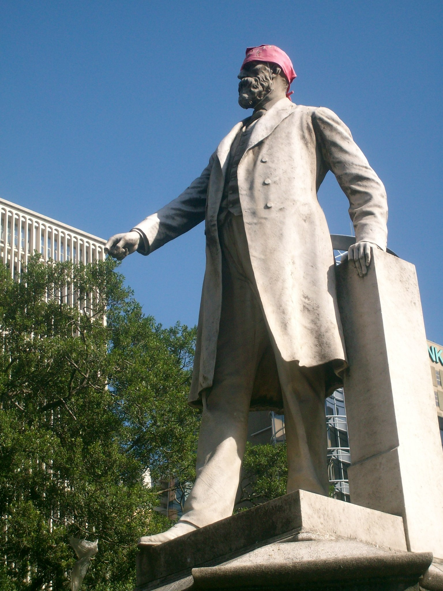 Cnr Smith & Gardiner Street, Durban, KZN